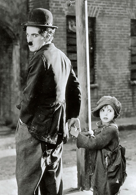 Cropped publicity photo from Charlie Chaplin's 1921 movie The Kid. Feauturing Charlie Chaplin and Jackie Coogan.